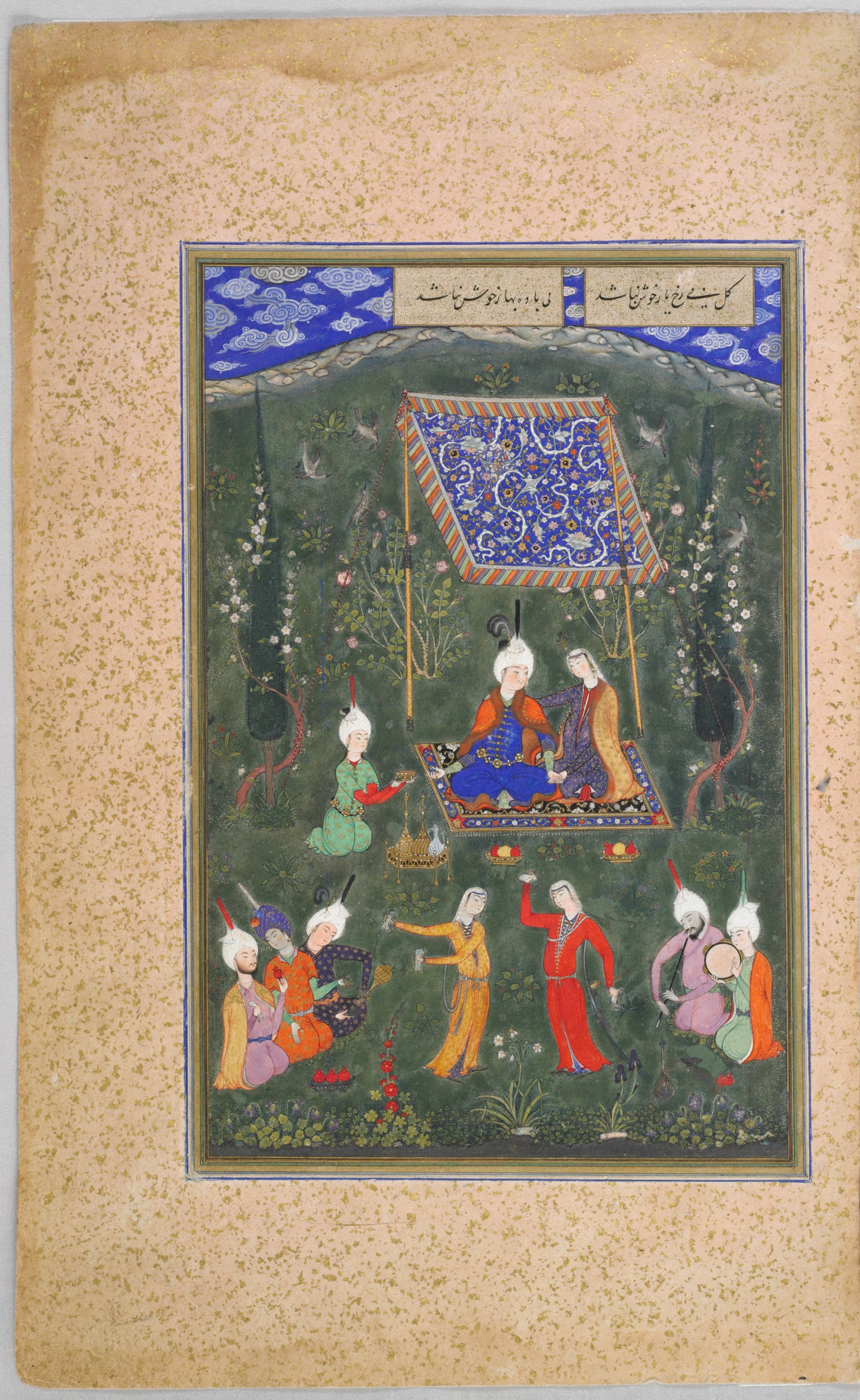 Object Number: 2007.183.2 People: Attributed to Sultan Muhammad, Persian (16th century) Classification: Manuscripts Work Type: manuscript folio Date: c. 1530 Places: Creation Place: Middle East, Iran, Tabriz Period: Safavid period Culture: Persian Persistent Link: Medium: Ink, opaque watercolor, and gold on paper Dimensions: 19 x 12.4 cm (7 1/2 x 4 7/8 in.)